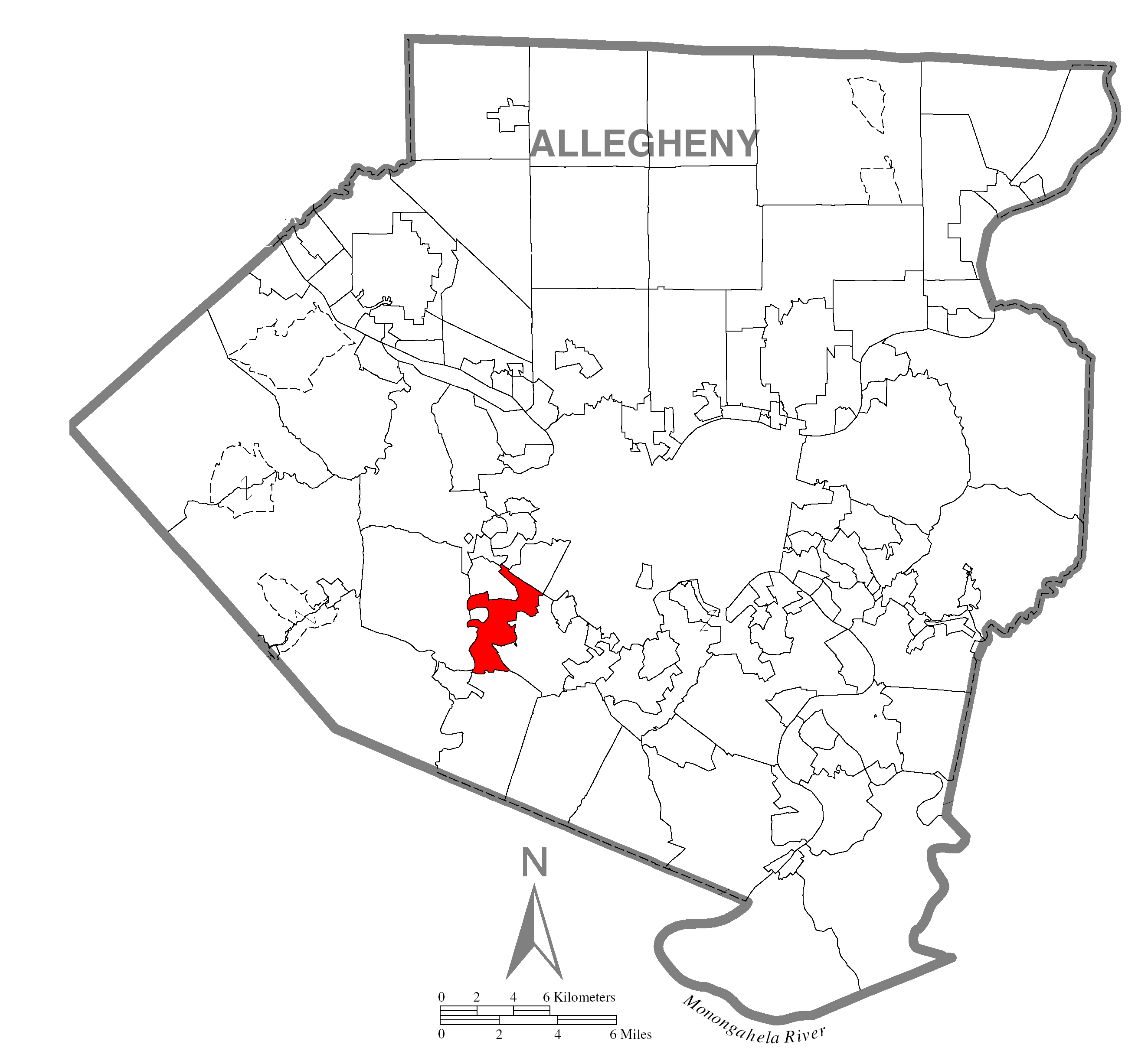 A map of Allegheny County showing Scott Township, Pennsylvania (alternate) highlighted on the map.